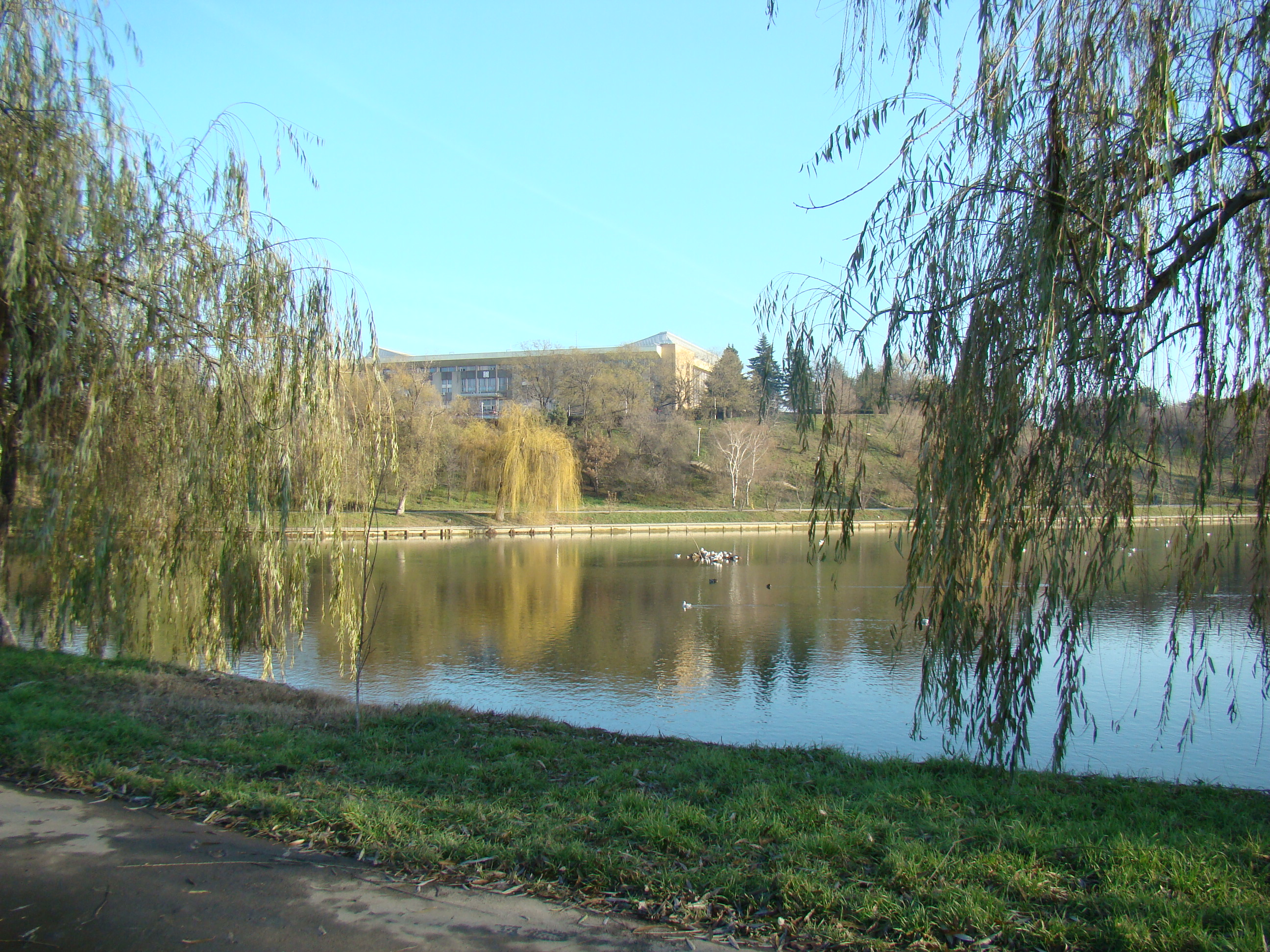 Tineretului Park in Bucharest